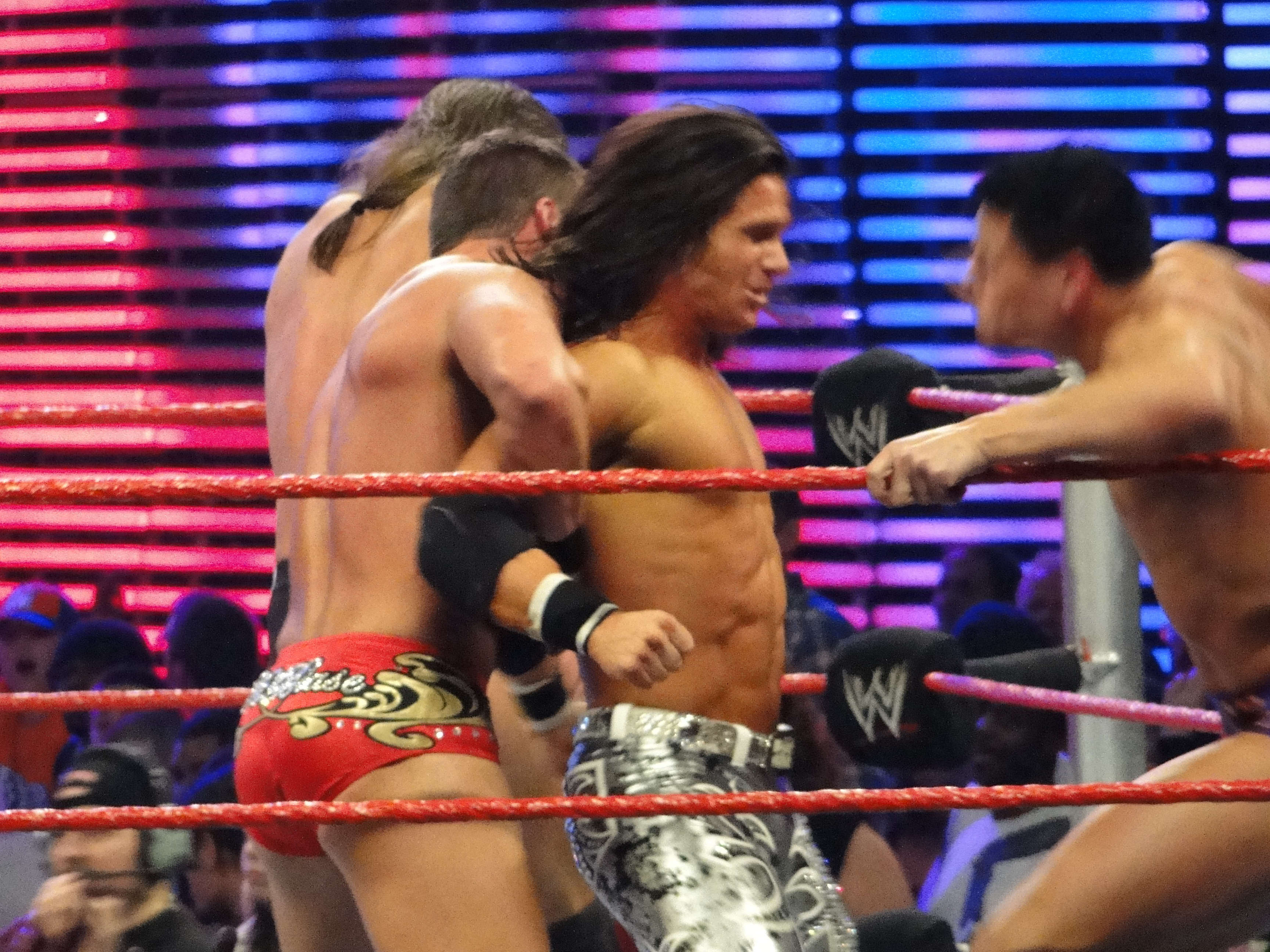 Morrison at the battle royal